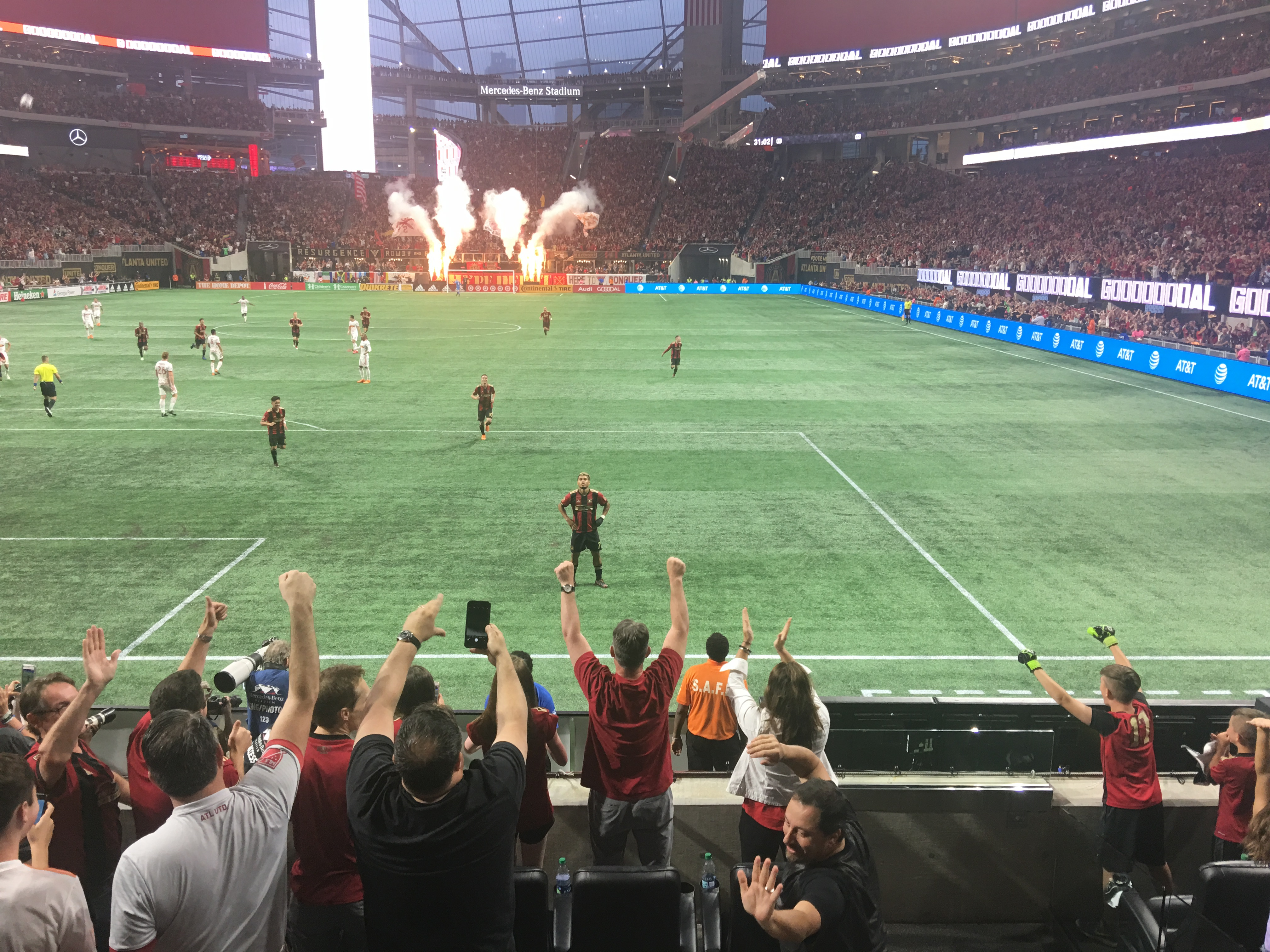 2018-05-20 - Atlanta United vs NY Red Bulls